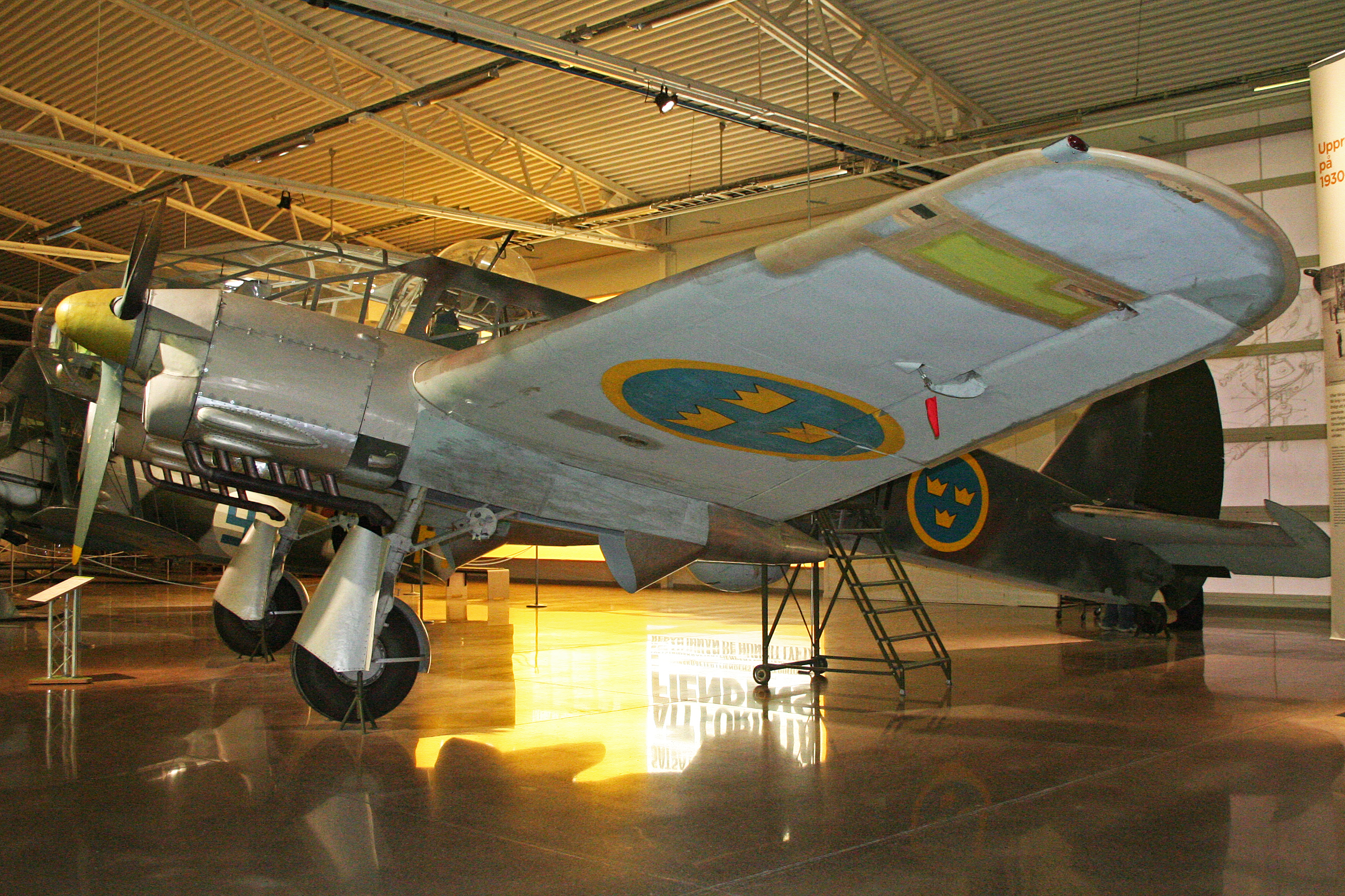 Full size mock-up (FSM) built for a TV mini series, it uses some original parts and is actually very convincing. Currently in F11 markings and undergoing some maintenance. Flyvapenmuseum, Malmen, Sweden. 04-06-2012